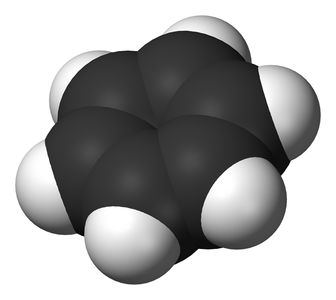 Space-filling model of benzene, C6H6. Colour code: Carbon, C: black Hydrogen, H: white